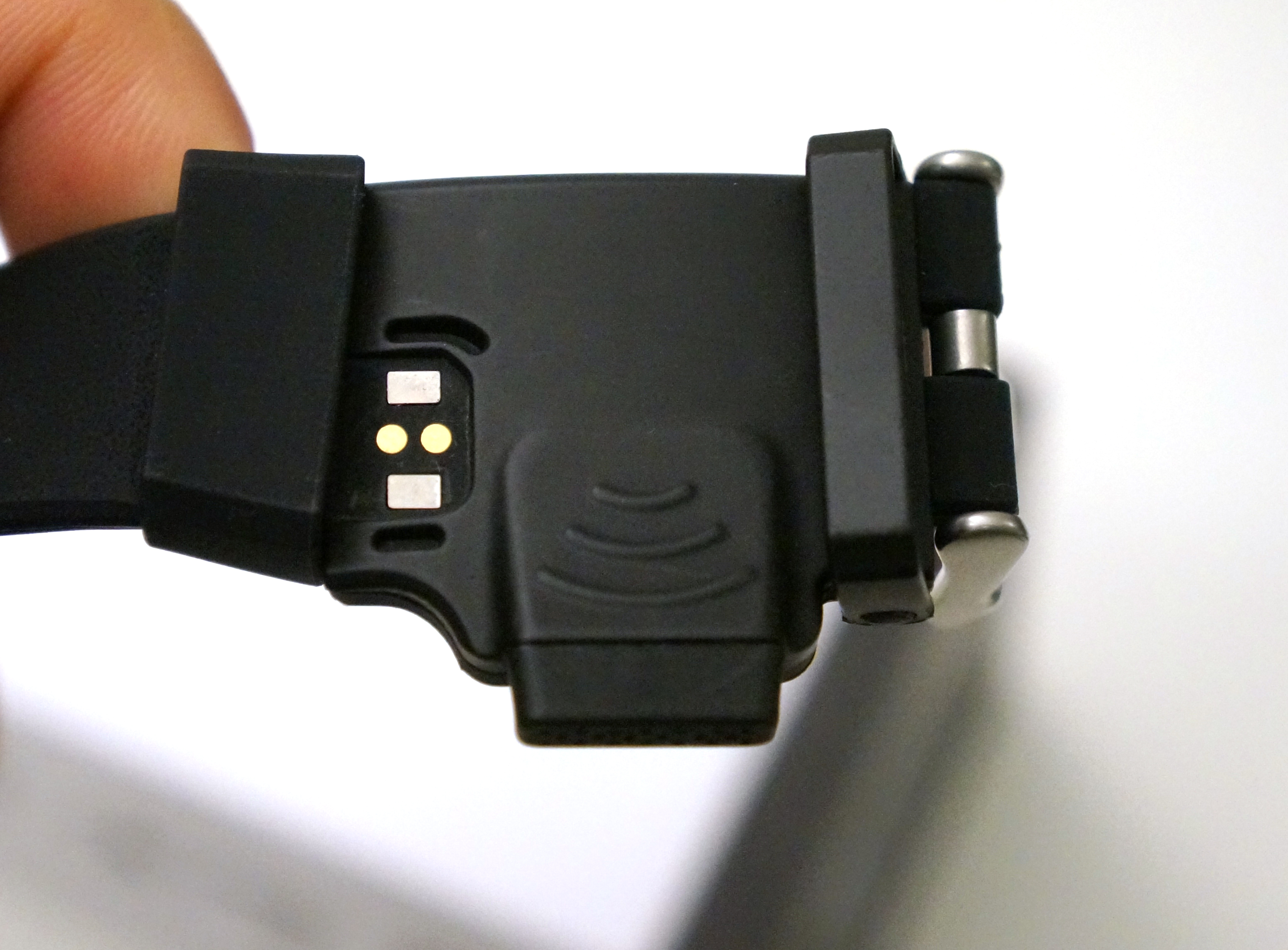 HOT Watch Curve model by PHTL featured a unique directional speaker and microphone on the strap allowing for private calls to be answered directly on the watch. Holding the watch up to one's face allowed the sound to bounce off the palm of a hand and into an ear. Magnetic charging pins also shown.